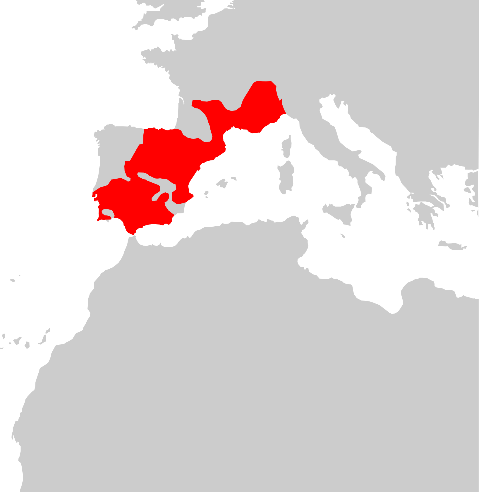 Distrbution map of Microtus duodecimcostatus